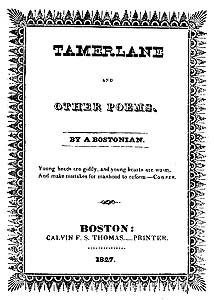 Front cover of "Tamerlane and Other Poems" by "a Bostonian" (aka Edgar Allan Poe).